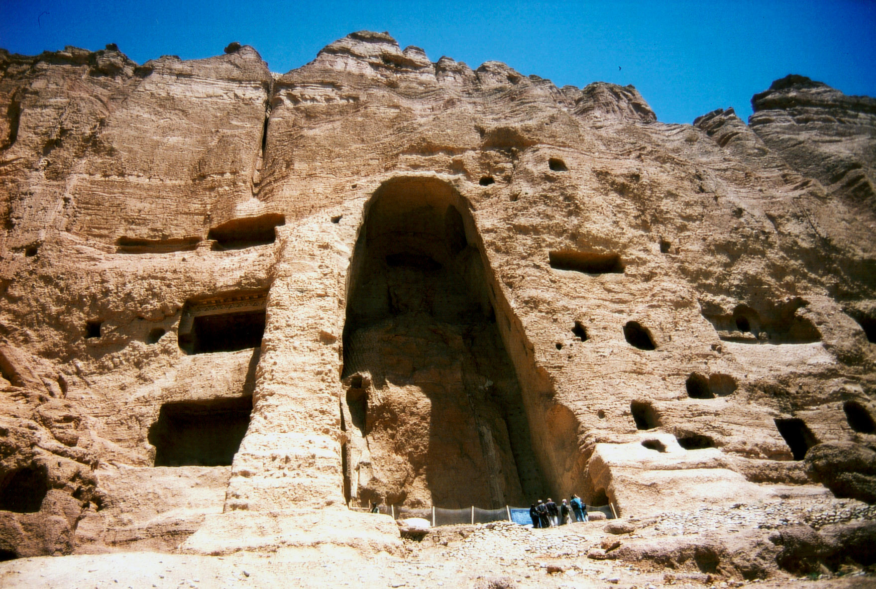 Cultural Landscape and Archaeological Remains of the Bamiyan Valley